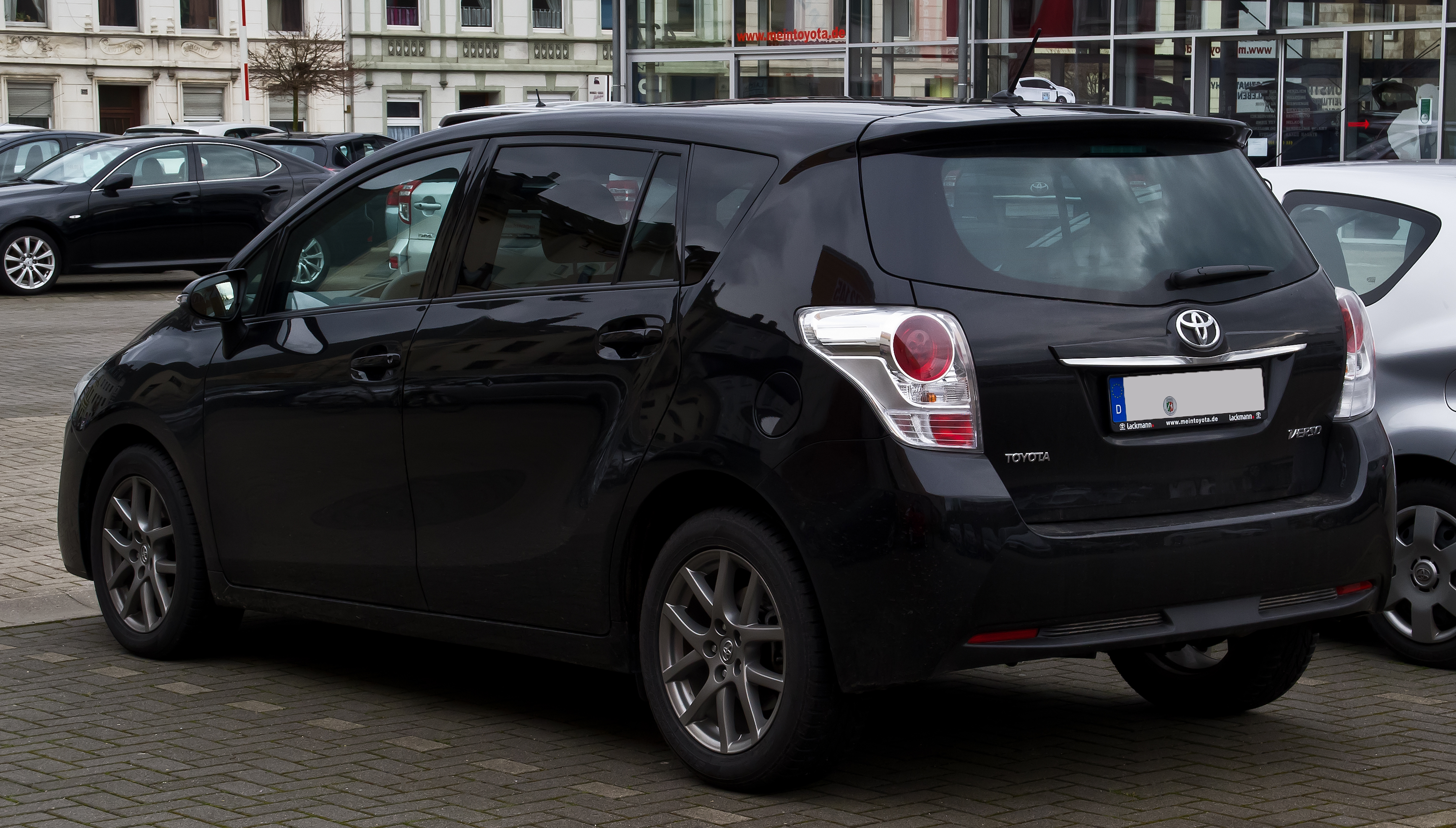 Toyota Verso (Facelift)